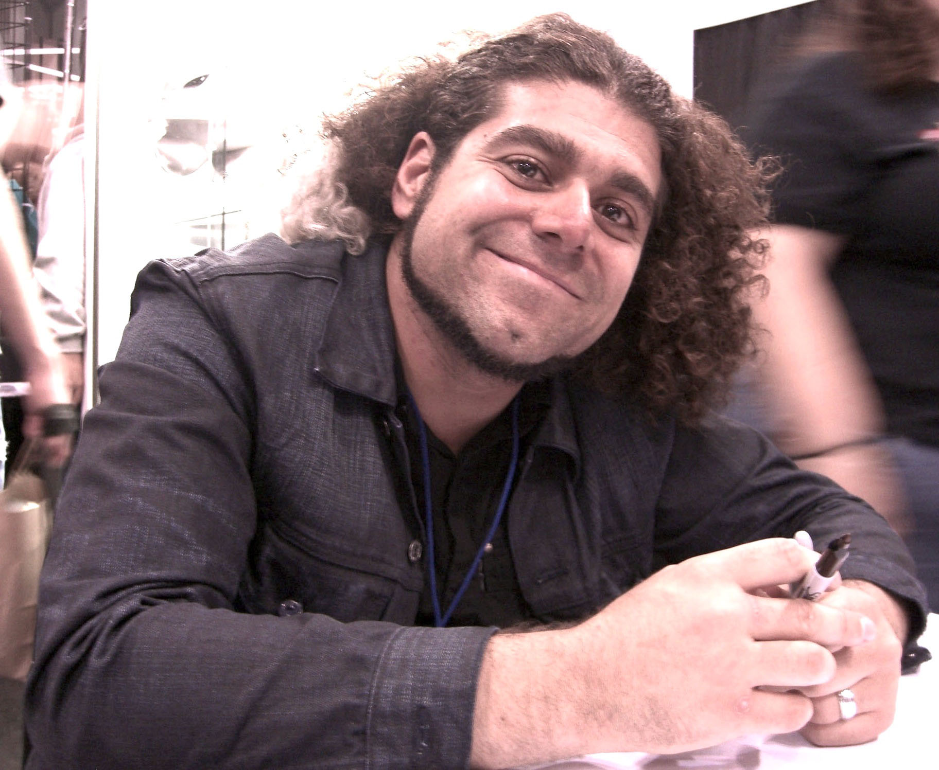 Musician and novelist Claudio Sanchez at the New York Comic Convention in Manhattan, October 9, 2010. Photo by Luigi Novi. This photo may be used, modified and published for any purpose, only if a easily visible credit to the photographer is placed near the photo in each instance in which it is used. (See licensing information below.) Publication of this photo without this proper attribution constitute copyright infringement. For more information on my photos, you can contact me here.